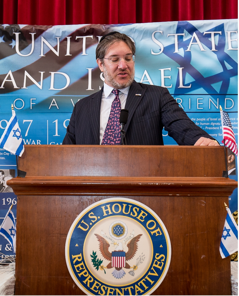 Eli Verschleiser Speaks in the Capitol. Washington DC